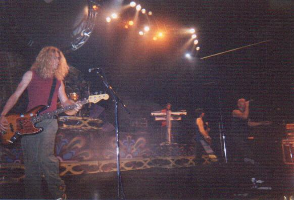 Band playing at the Morial Convention Center. Phil Joel in foreground.